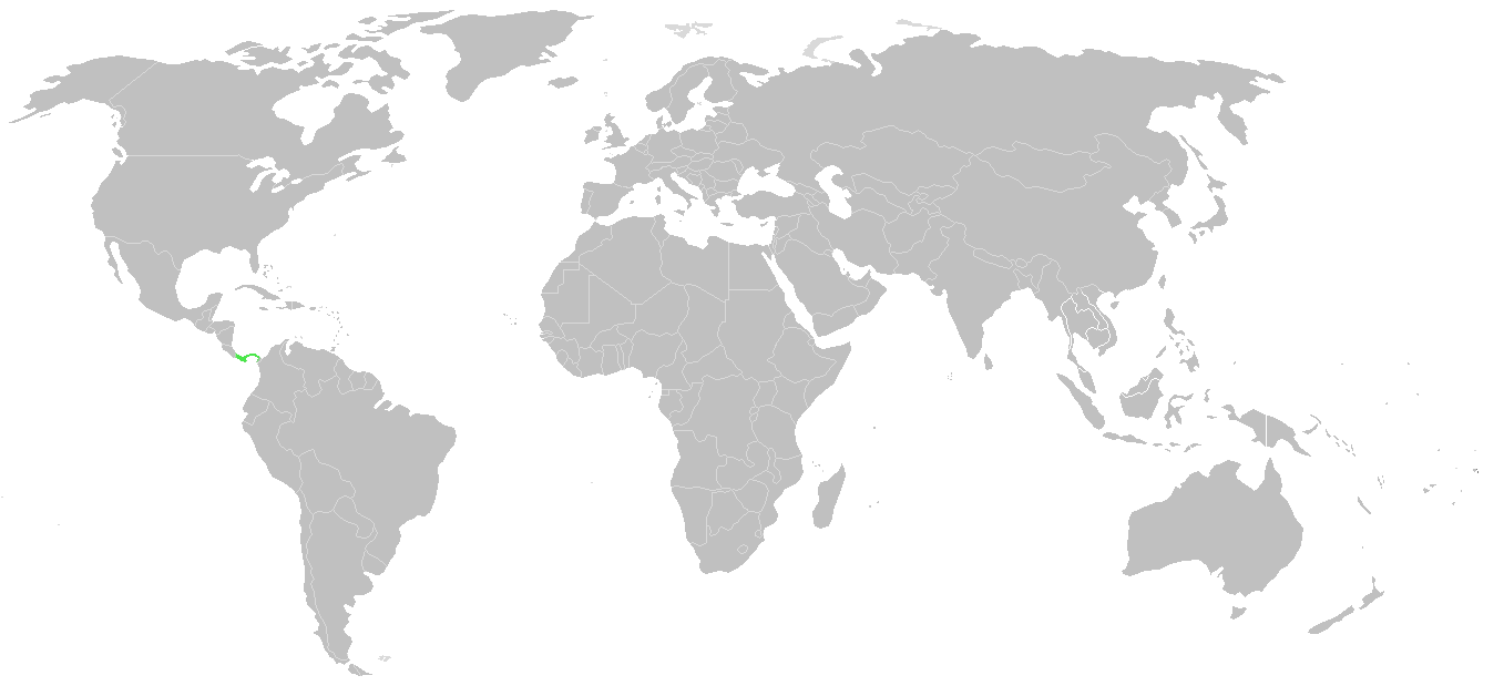 Known world distribution of the jumping spider Micalula longithorax (Panama).